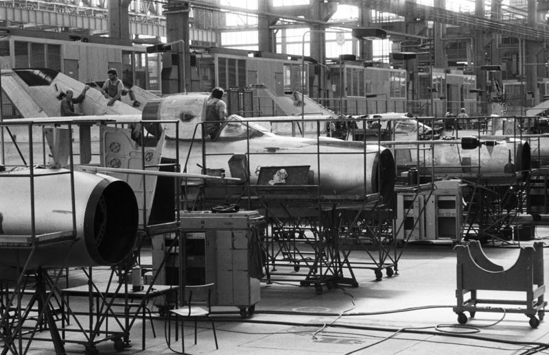 Maintenance of 10 MiG-21 of the Iraque military in Dresden (GDR) in 1990.